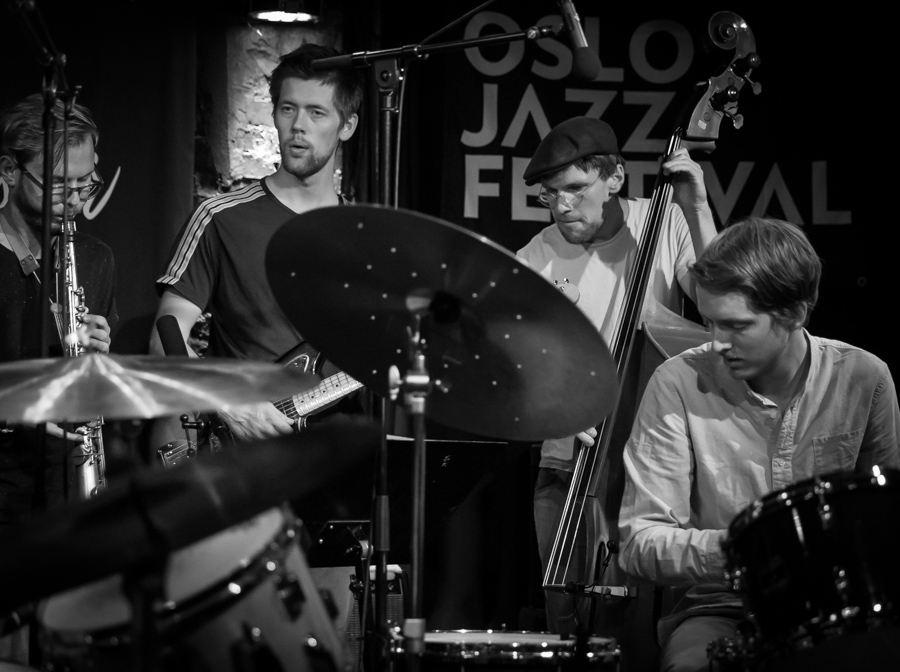 Megalodon Collective at the stage of Herr Nilsen. The concert was part of the Oslo Jazz Festival in Norway and took place on 16. August 2016. Lineup: Karl «Kalle» Nyberg (saxophone) Martin Myhre Olsen (saxophone) Petter Kraft (saxophone) Karl Bjorå (guitar) Aaron Mandelmann (bass guitar) Andreas Winther (drums) Henrik Lødøen (drums)